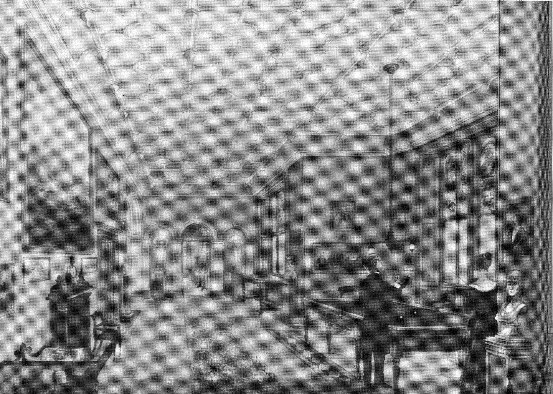 Painting of the entrance hall to Capesthorne Hall, Cheshire